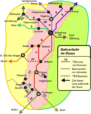 Map of Local Railways in Alsace, France